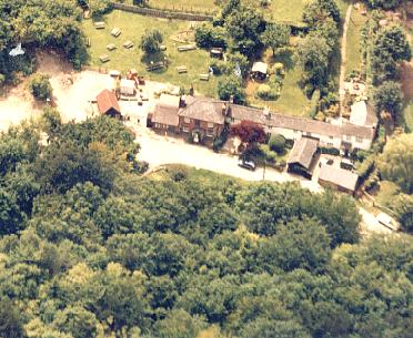 The former 'cats den' in Cadsden which is now 2 cottages and a pub